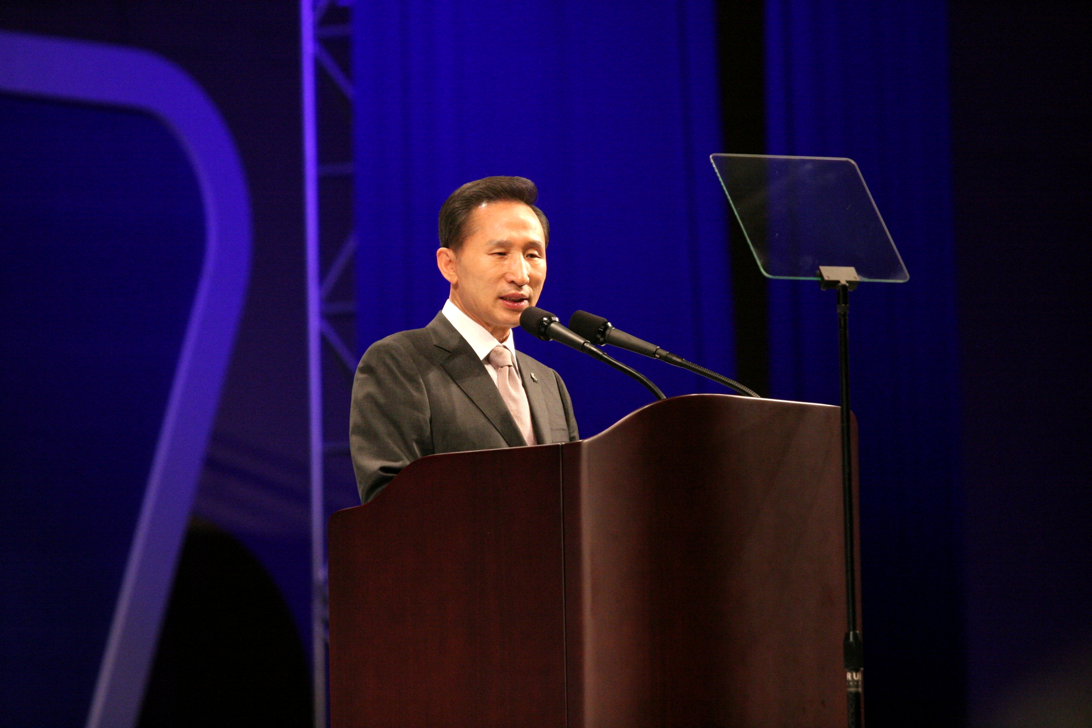 The President of South Korea, mr Lee Myung-bak, at his opening address of the OECD ministerial meeting in Seoul "The Future of the Internet economy".